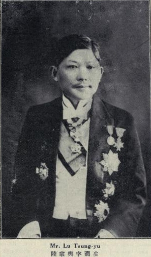 Lu Zongyu (Lu Tzung-yü), Runsheng (1876 - 1941)